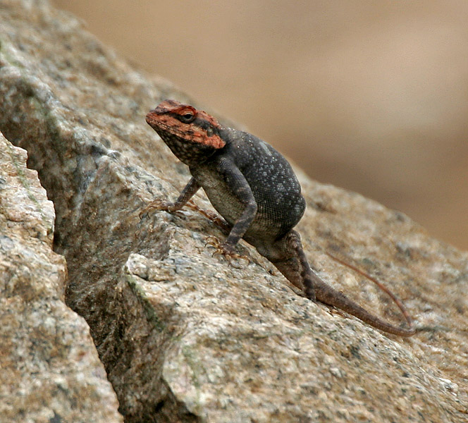 Blanford's Rock Agama Psammophilus blanfordanus in Hyderabad , India.